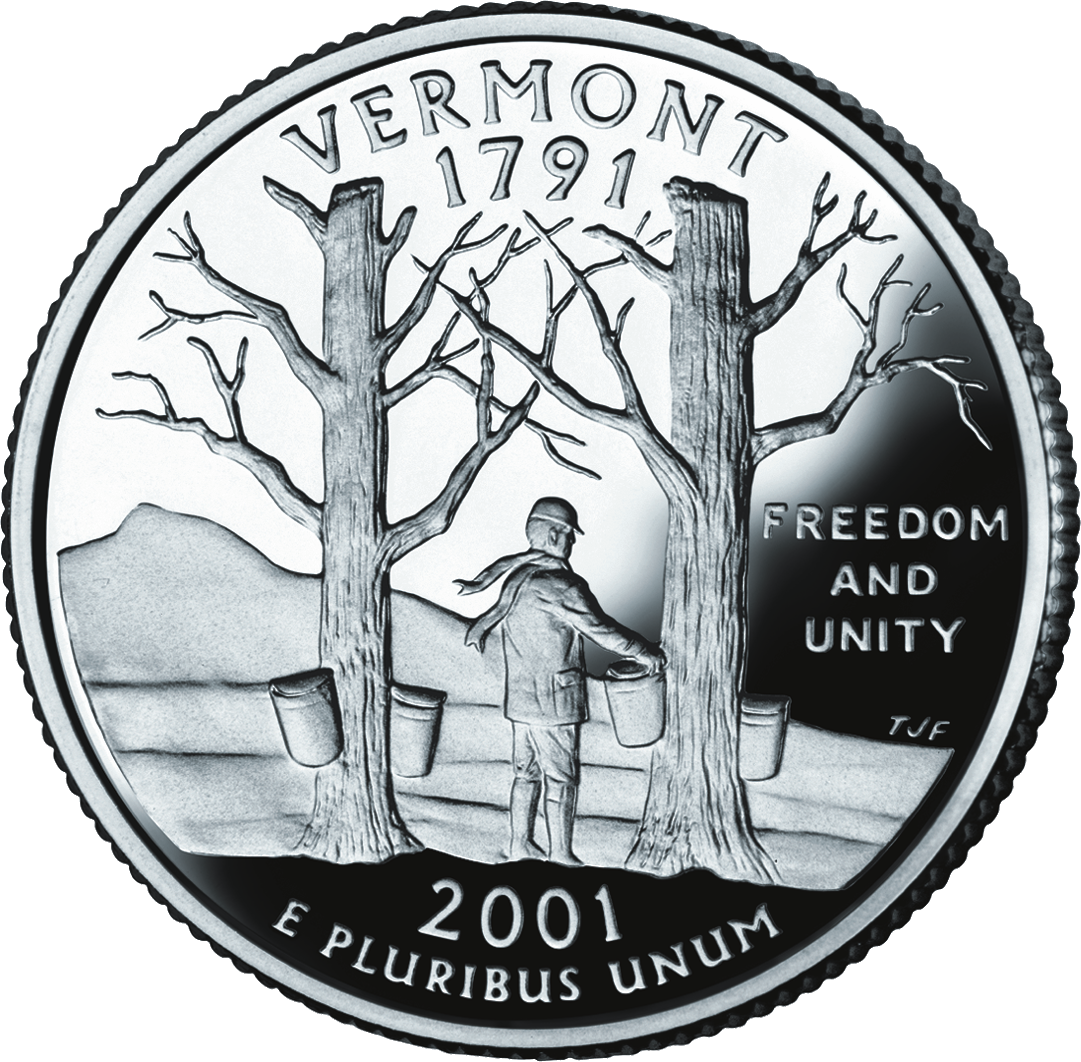 Removed background, cropped, and converted to PNG with Macromedia Fireworks. This image depicts a unit of currency issued by the United States of America. If Fraudulent use of this image is punishable under applicable counterfeiting laws. As listed by the United States Secret Service at money illustrations, the Counterfeit Detection Act of 1992, Public Law 102-550, in Section 411 of Title 31 of the Code of Federal Regulations (31 CFR 411), permits color illustrations of U.S. currency provided:1. The illustration is of a size less than three-fourths or more than one and one-half, in linear dimension, of each part of the item illustrated;2. The illustration is one-sided; and3. All negatives, plates, positives, digitized storage medium, graphic files, magnetic medium, optical storage devices, and any other thing used in the making of the illustration that contain an image of the illustration or any part thereof are destroyed and/or deleted or erased after their final use. Certain coins contain copyrights licensed to the U.S. Mint and owned by third parties or assigned to and owned by the U.S. Mint [1]. For the United States Mint circulating coin design use policy, see [2]; for the policy on the 50 State Quarters, see [3]. Also: COM:ART #Photograph of an old coin found on the Internet